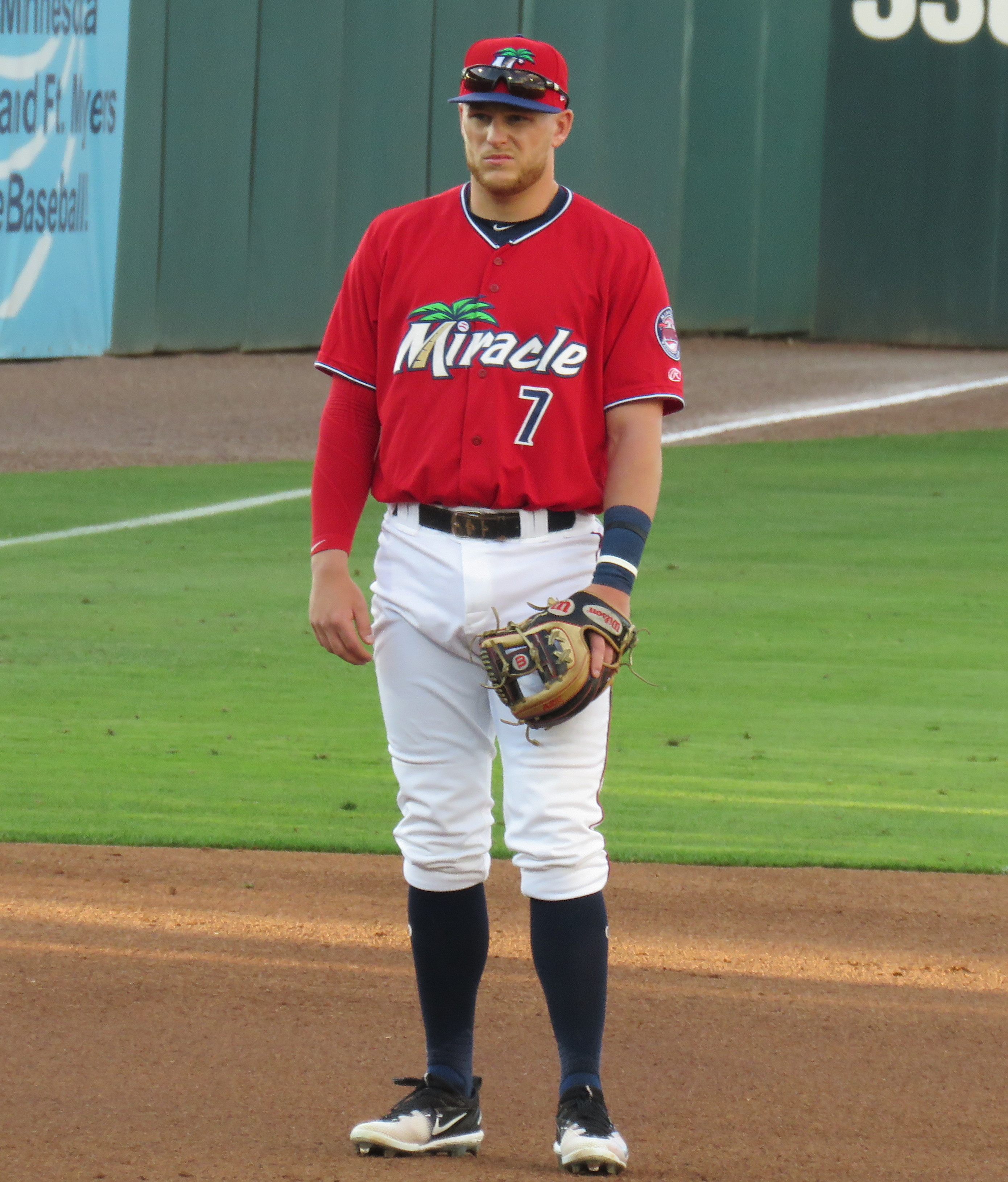 Blankenhorn in the infield